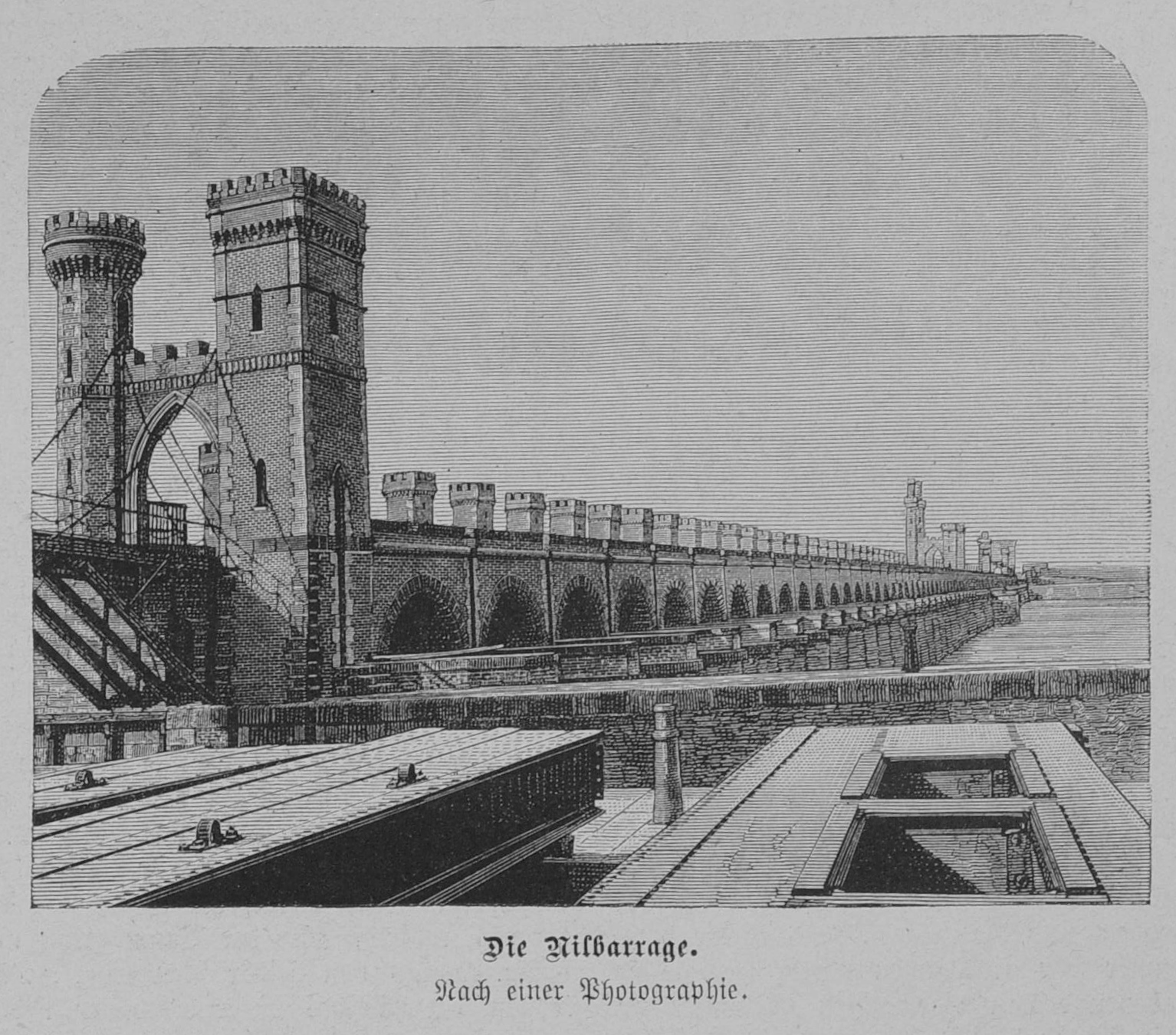 caption: "Die Nilbarrage. Nach einer Photographie."